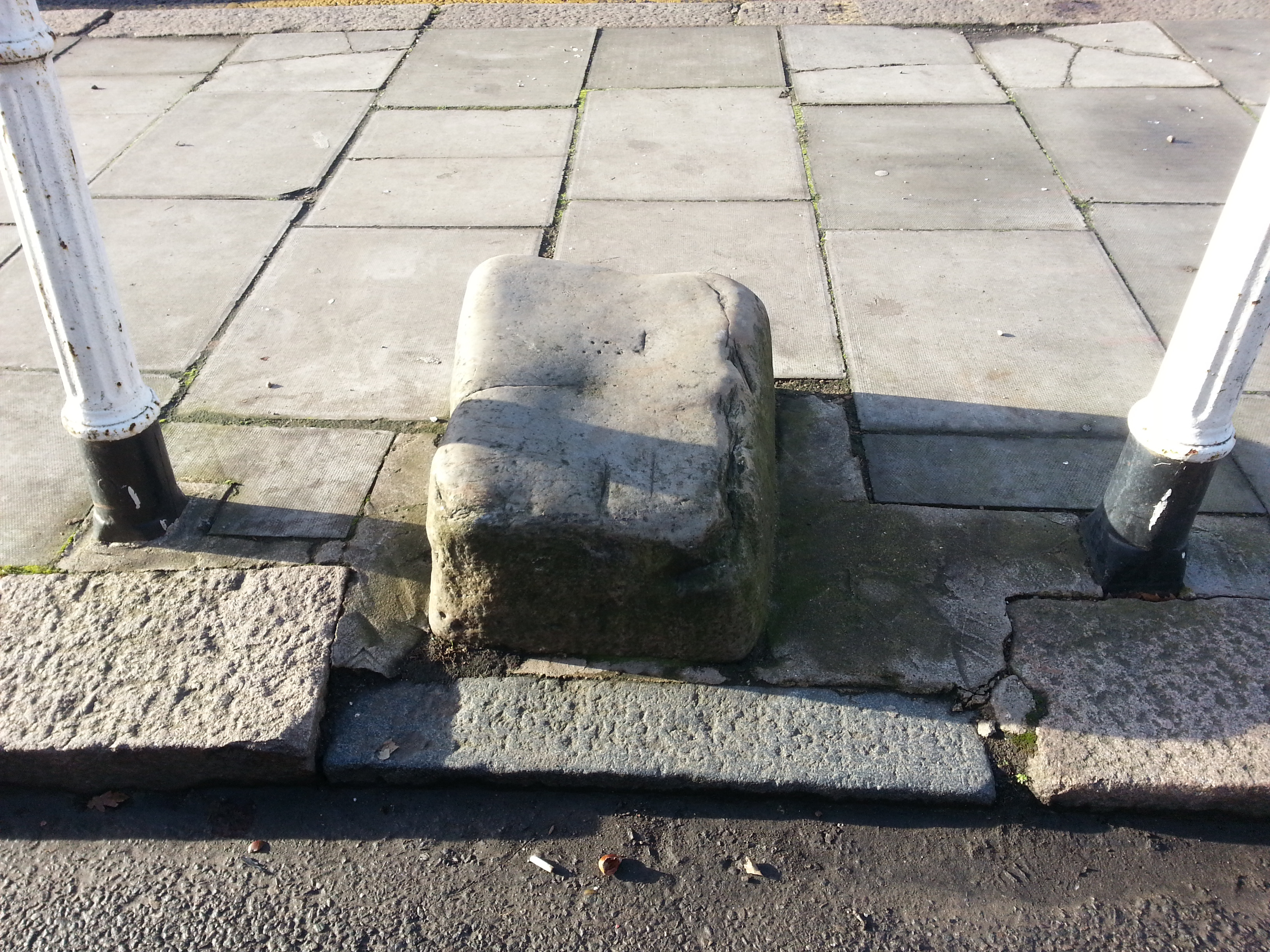 This large stone in Whetstone, north London is thought to have been used to sharpen weapons during the Battle of Barnet in the 15th century. It is located on Whetstone Highroad, outside the Griffin public house.